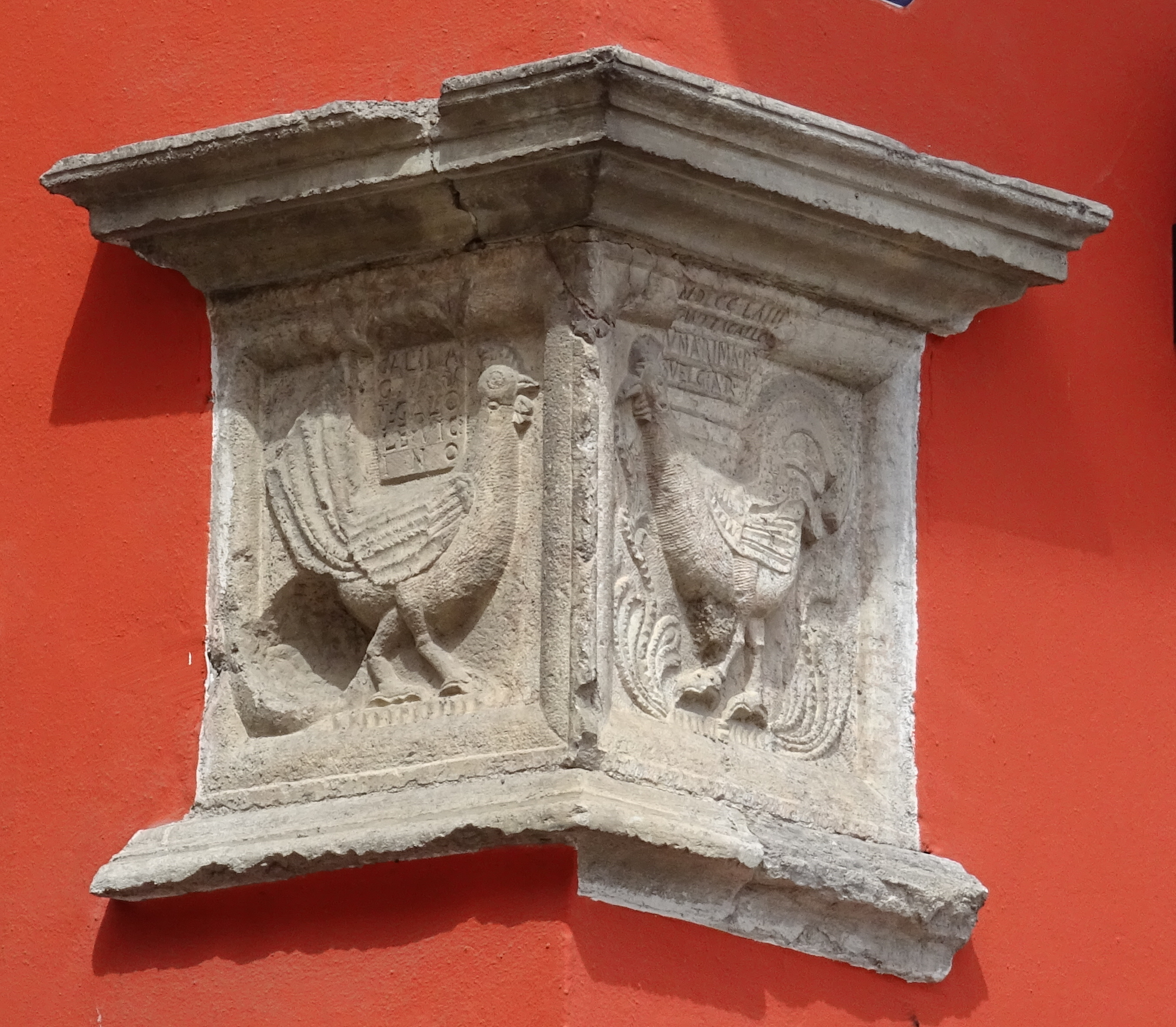 Piazza Zona libera 1944. Arengario, the old "palazzo comunale" of the seventeenth century, now the Tourist Office. Cornerstone "Gallina e Gallo".